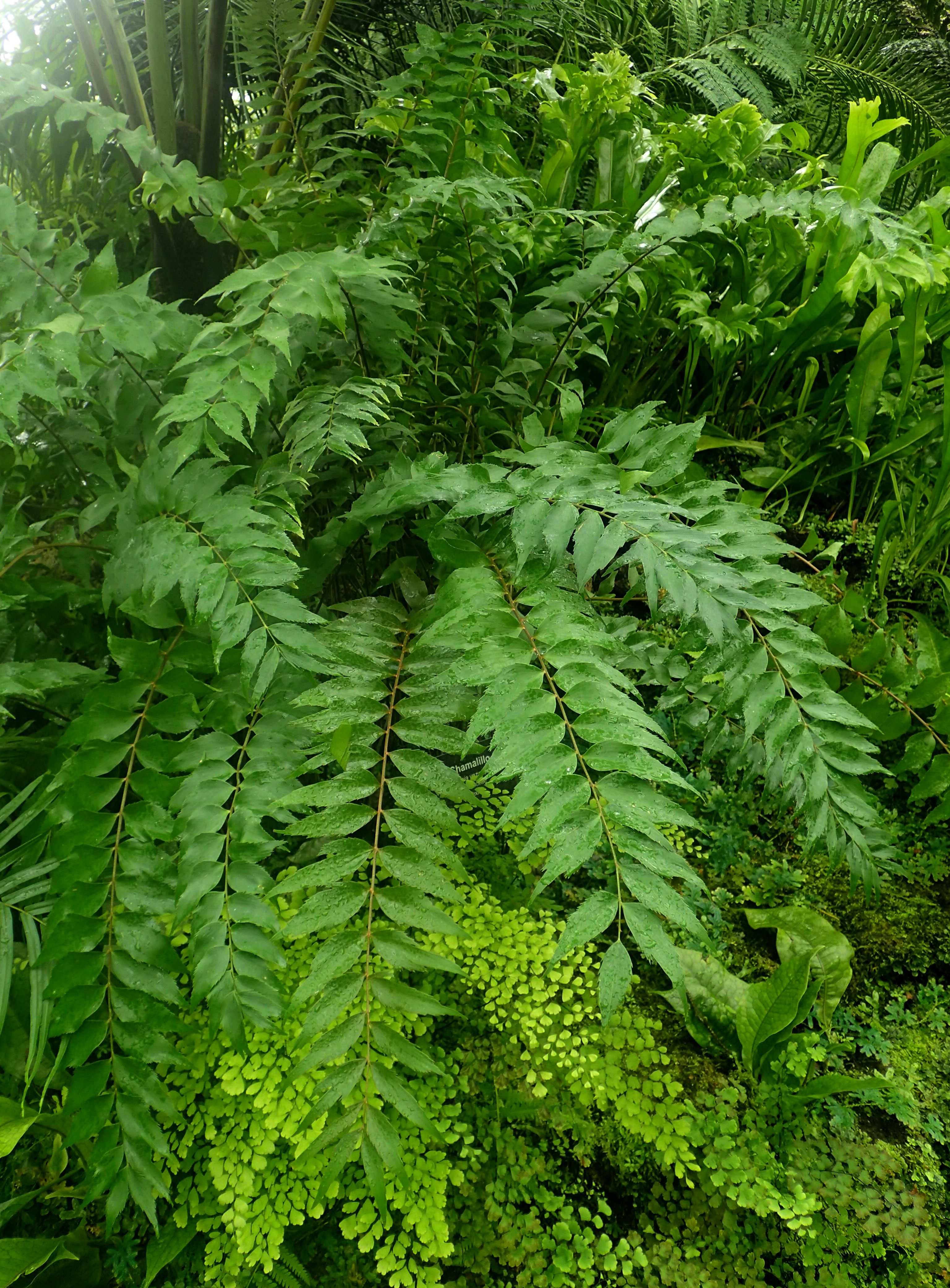 Zamia vazquezii at Garfield Park Conservatory